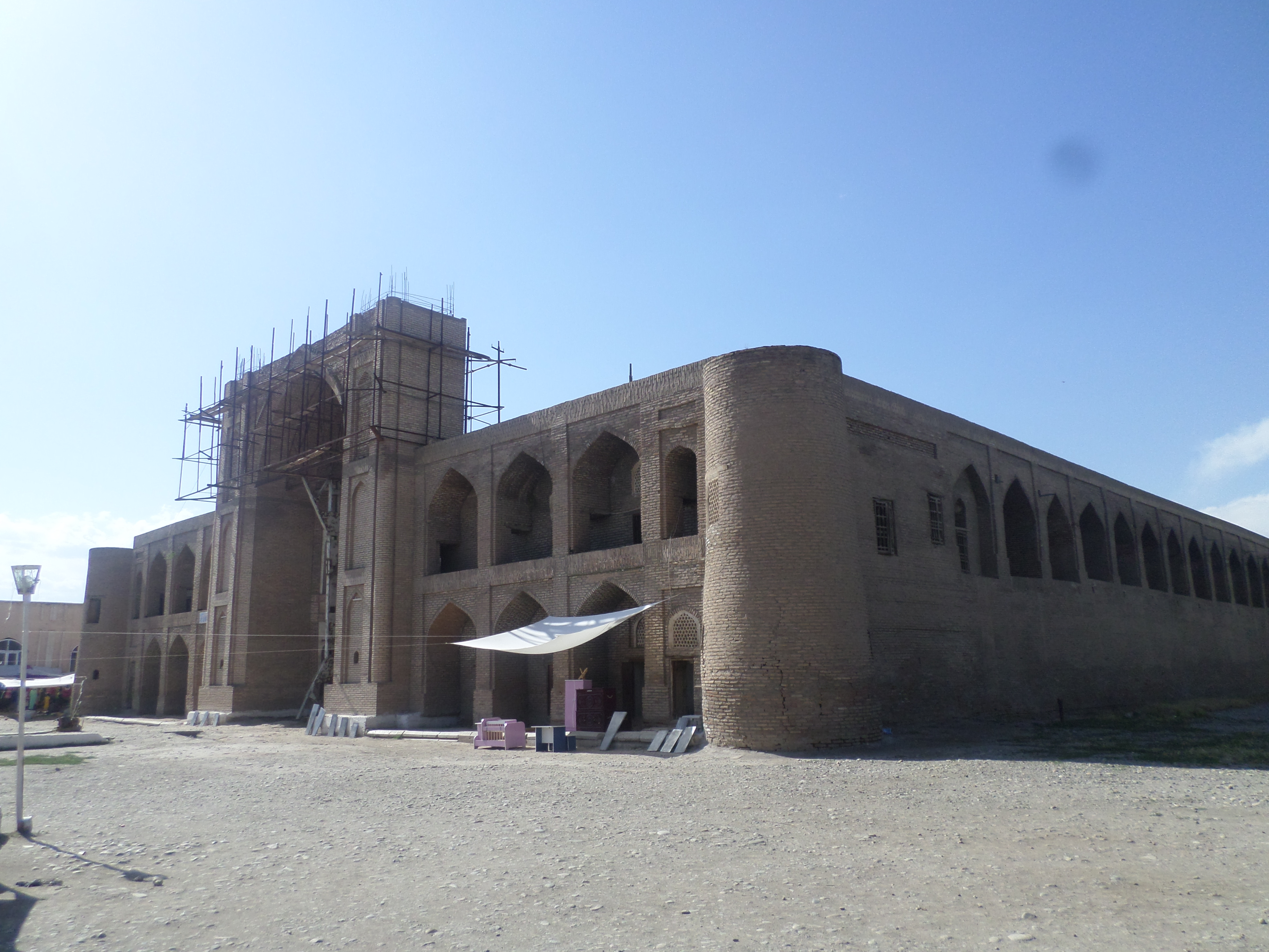 Denov madrasa Sayid Atalik